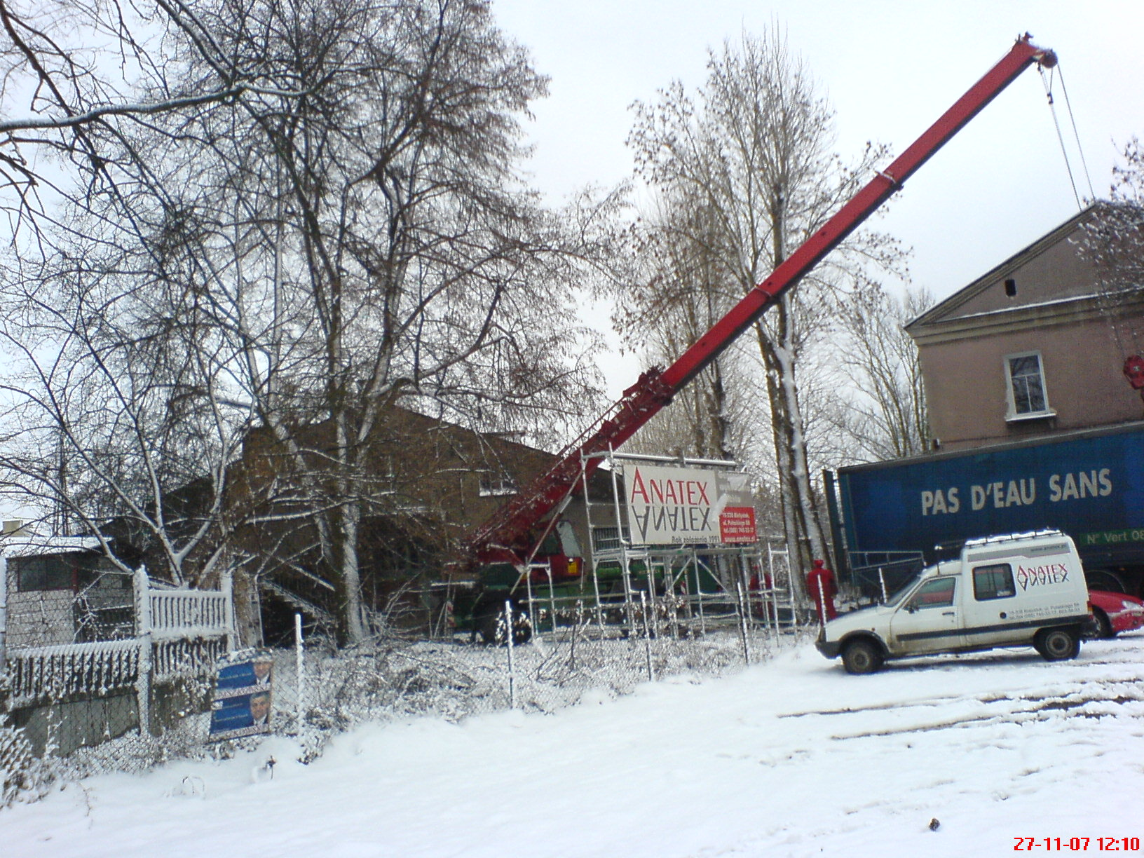 Building construction sites in Białystok, at 49 Mickiewicza Street (2007)